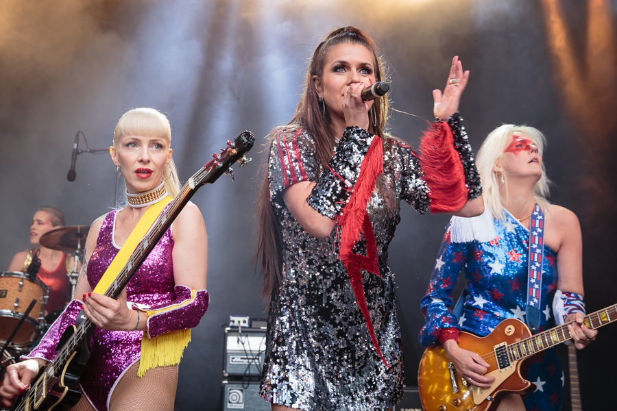 Cocktail Slippers at the DnB-stage at Grefsenkollen. The concert was part of Over Oslo and took place on 22. June 2018 in Oslo. Lineup:Silje Hope (vocal)Stine Bendiksen (guitar)Thea Sofie Melborg (keyboard)Konstanse Larsen (drums)Astrid Waller (bass guitar)